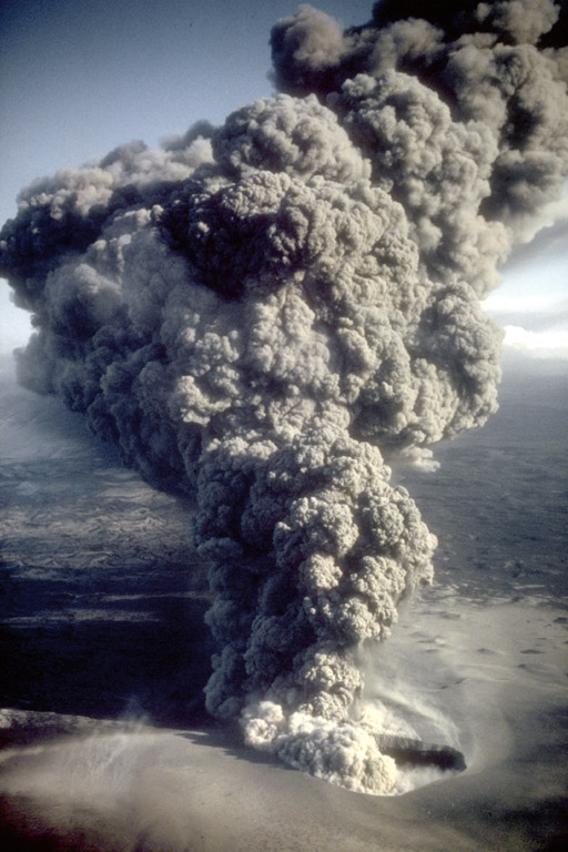 "Phreatomagmatic eruption column rising from the east Ukinrek Maar crater at about 5:00 PM on April 6, 1977. View is to the southeast. Photograph by R. Russell, Alaska Department of Fish and Game, April 6, 1977."